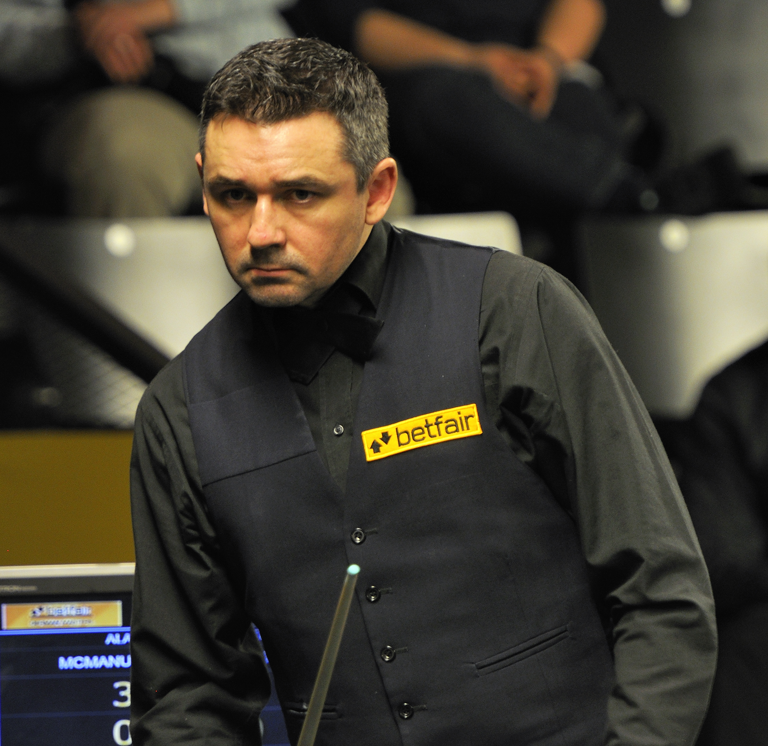 Picture taken in Berlin during the Snooker German Masters in 2013. Alan McManus.